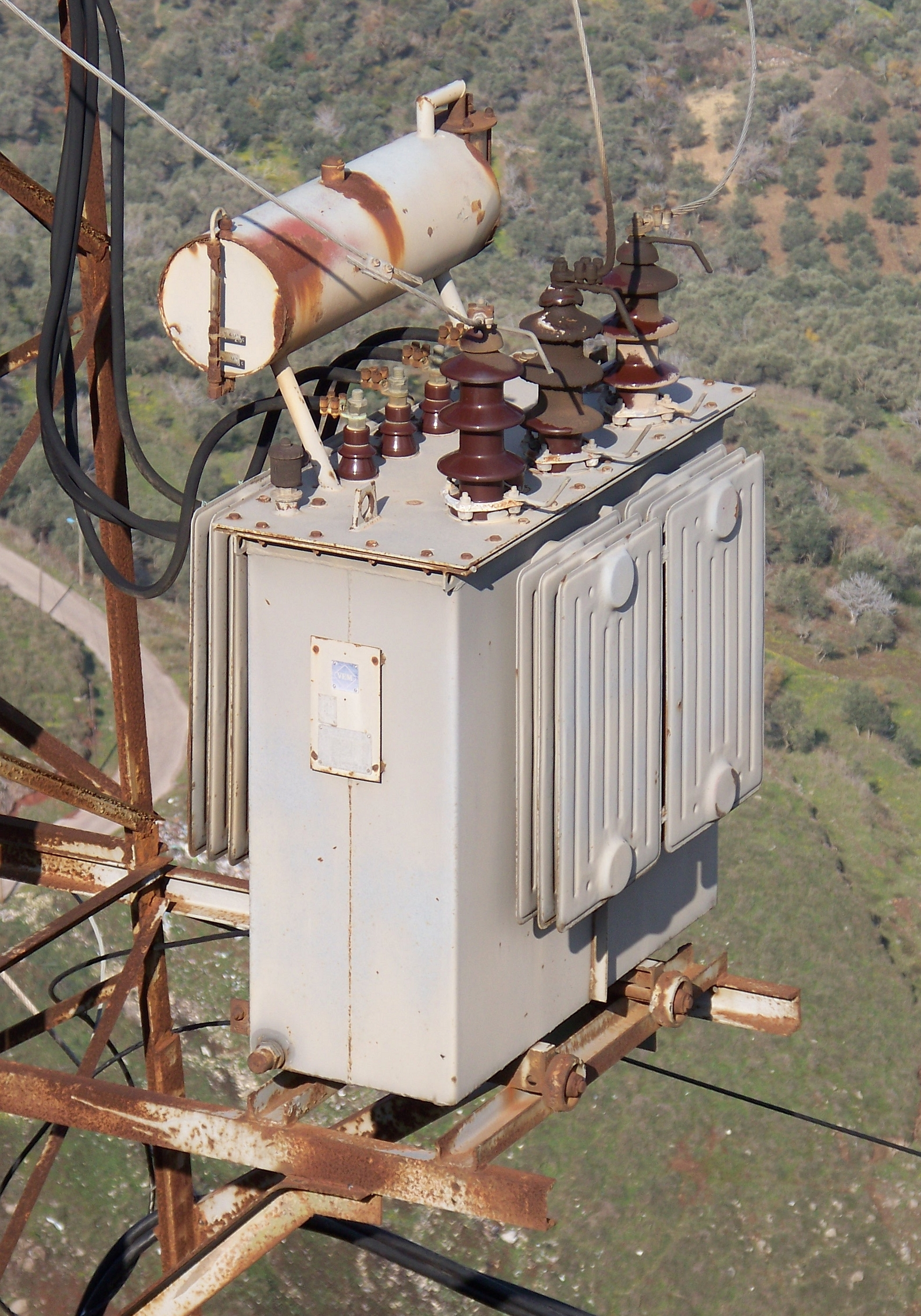 Three phase pole mounted transformer in Syria.